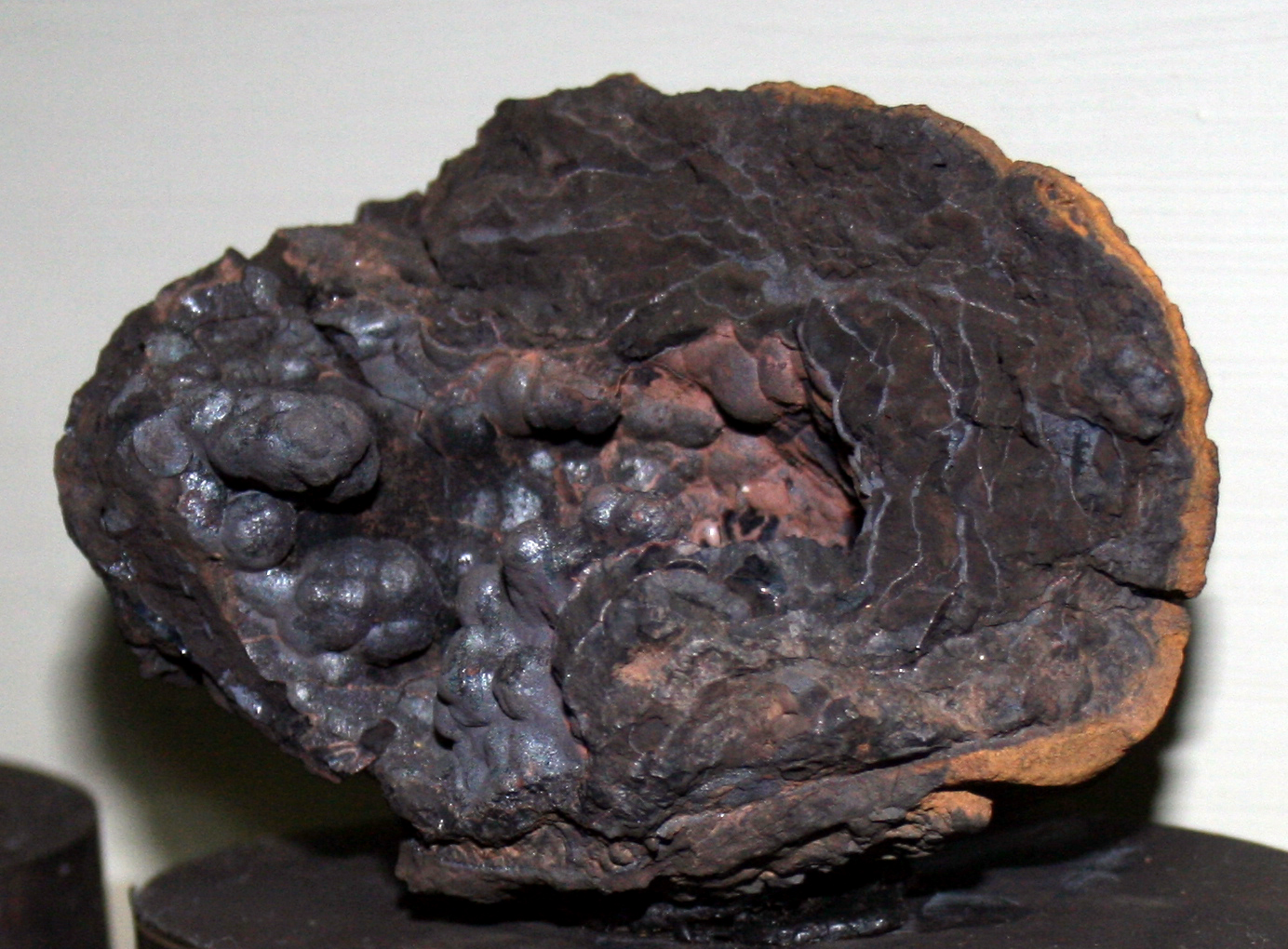 Mineral Hausmanitte, chemical composition: oxides of manganese with different valency, from collection of National Museum, Prague, Czech Republic, originally from Czech republic